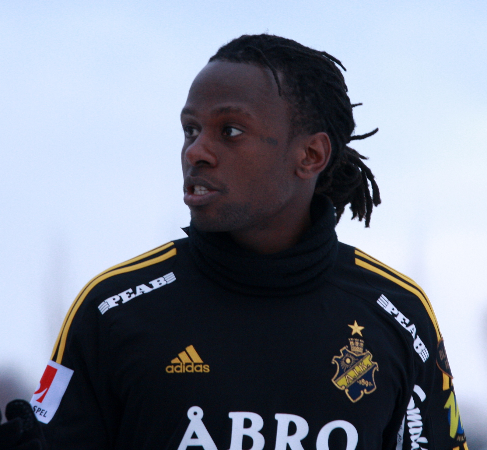 Martin Kayongo-Mutumba, RBK - AIK